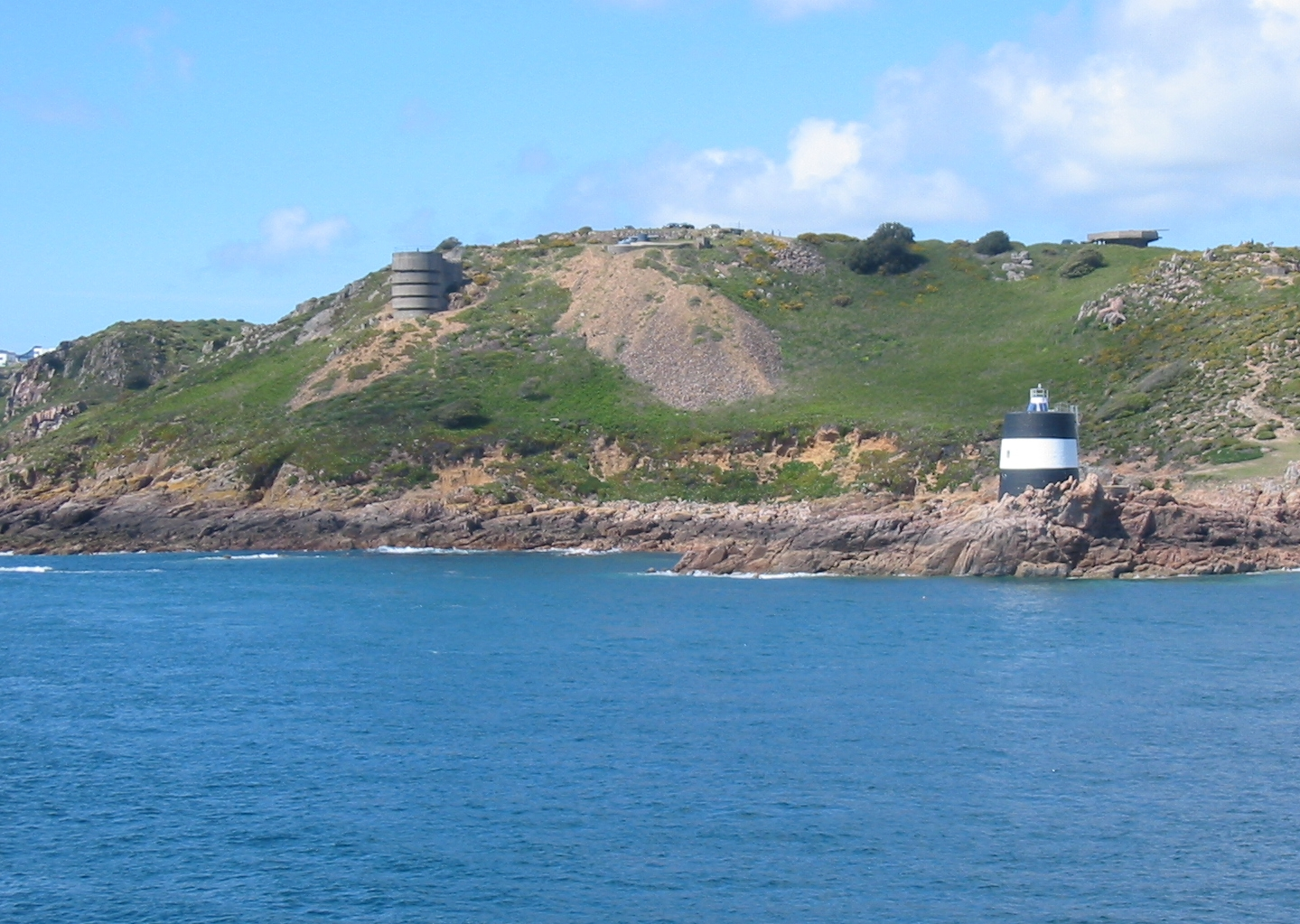 Jersey seen from the ferry